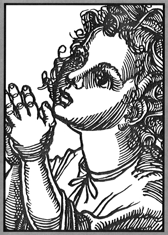 Praying Child Notecard